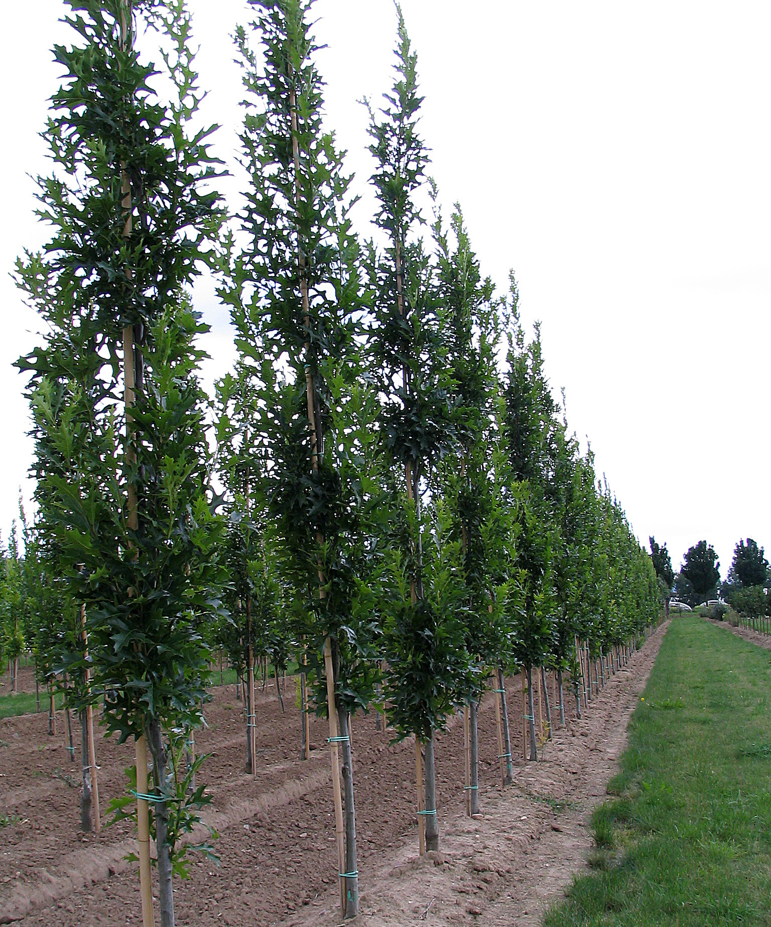 Quercus palustris 'Green Pilar'